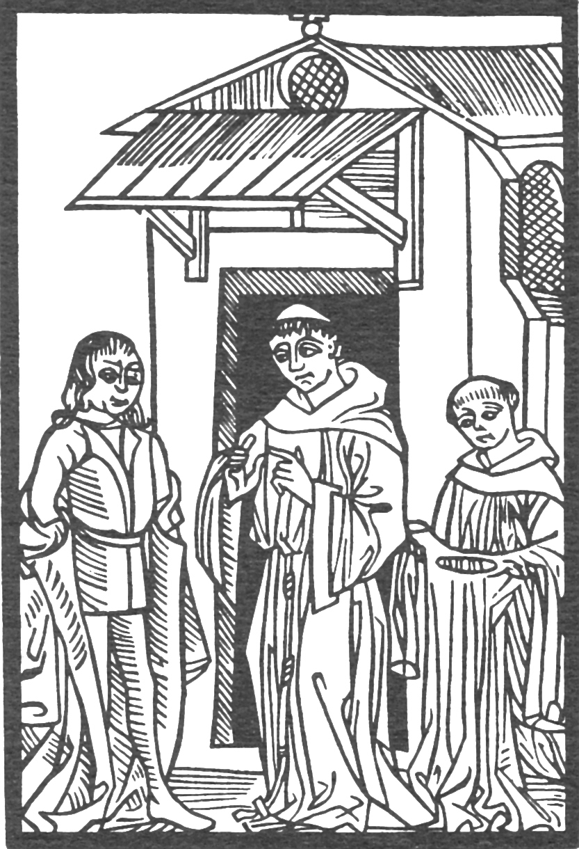 Knight Owein (at the left) listens to the enumerations of the torments of the purgatory by the prior (in the center).